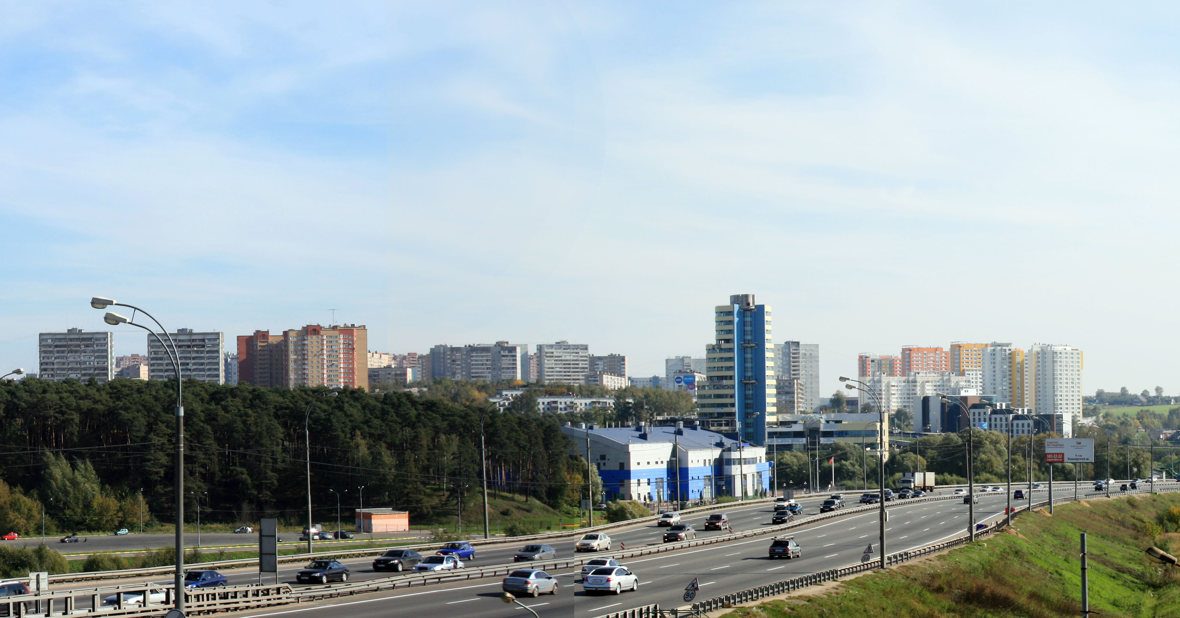 Vidnoe town, Moscow Oblast.